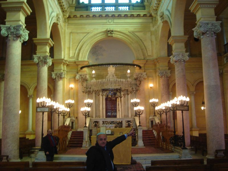 Jewish community of Egypt. Egypt's Jewish community which numbered 70,000-90,000 at its height (in 1947) now only has a few tens of Jews. The community looks after the cemeteries and the remaining synagogues, but needs moral and financial support.